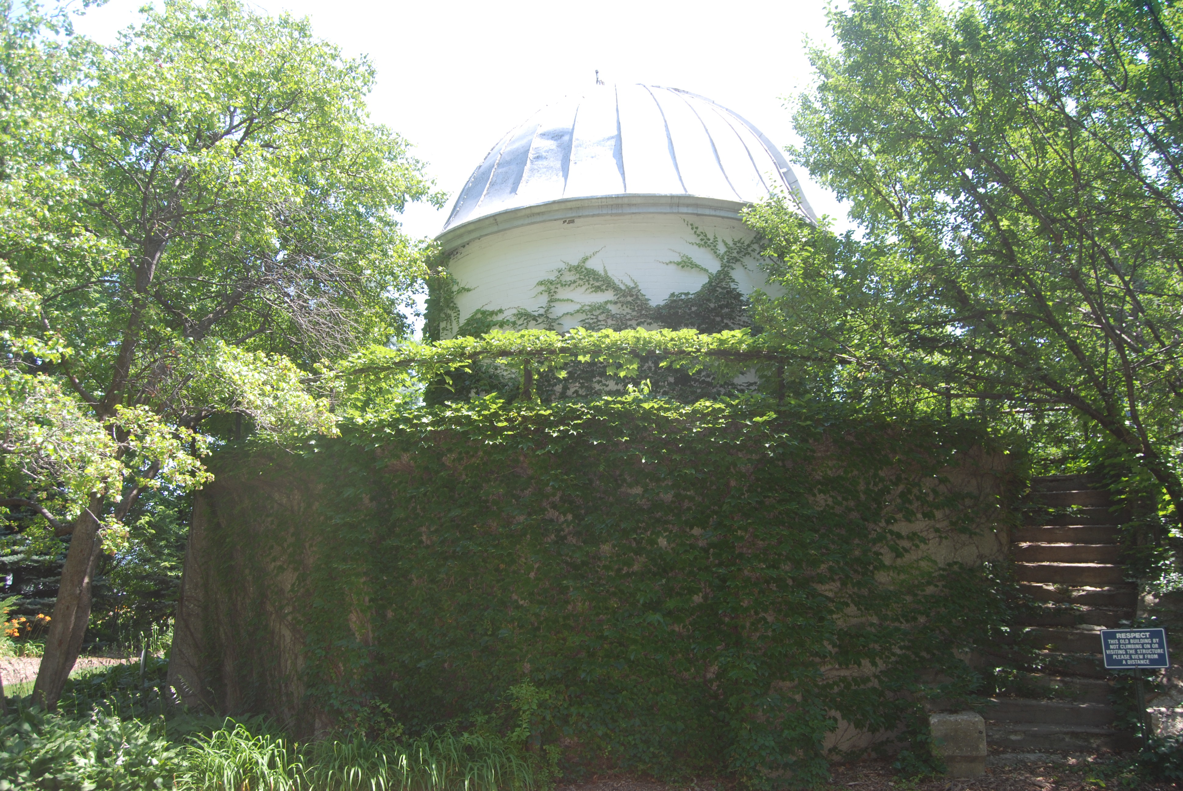 Observatory on Creighton University's campus from July 2013